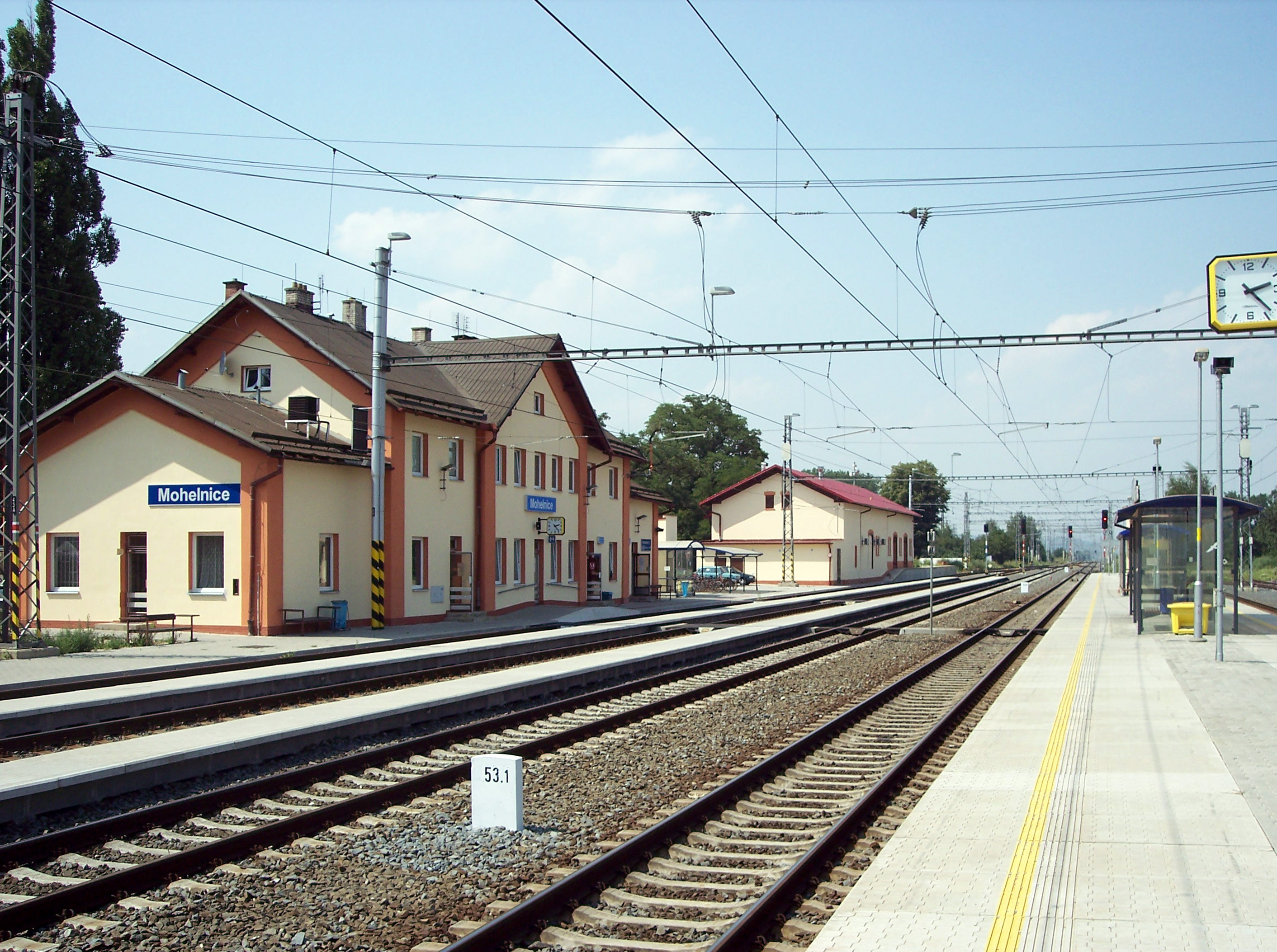 Railway station on main line connecting Prague and Ostrava in Mohelnice, Šumperk District, Czech Republic